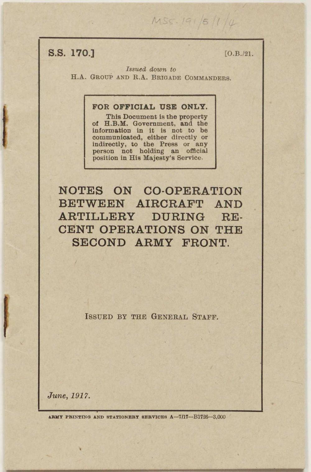 Cover of British Army publication: SS 170, 'Notes on co-operation between aircraft and artillery during recent operations on the Second Army front', Jun 1917